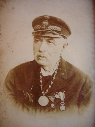 Marciano Azuaga (1839-1905), Portuguese station master and art collector.